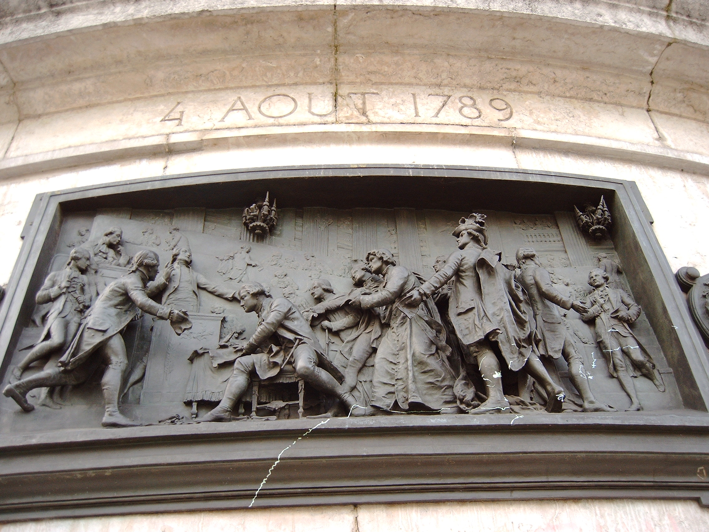 Night of August 4th, abolition of feudality and fiscal privileges